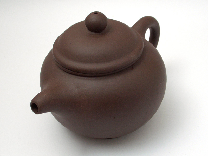 Chatsubo, Teapot for the Chinese brown